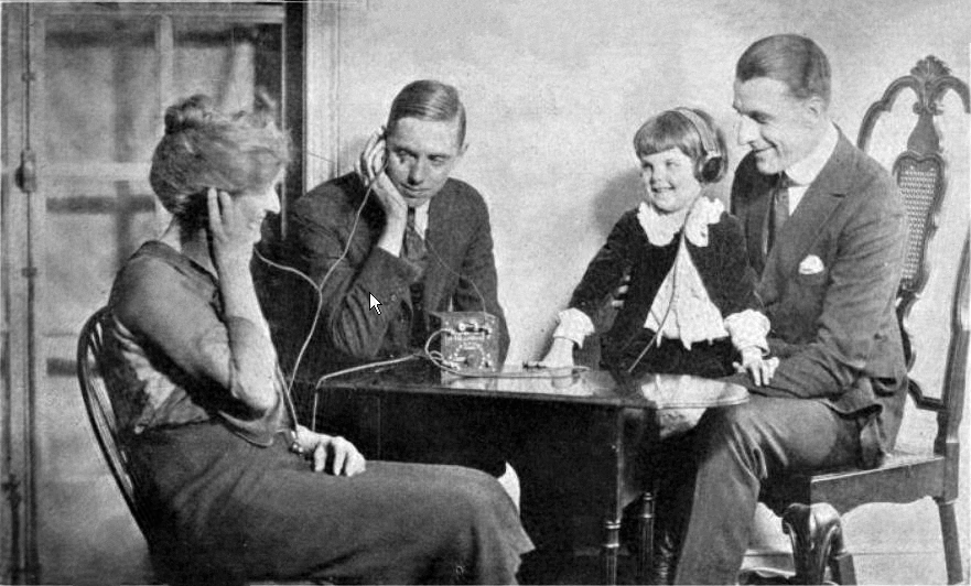 Photo of an American family in the 1920s listening to a crystal radio. From a 1922 advertisement for Freed-Eisemann radios in Radio World magazine. The small radio is on the table. Crystal sets work off the power received from radio waves, so they are not strong enough to power loudspeakers. Therefore the family members each wear earphones, the mother and father sharing a pair. Although this is obviously a professionally posed, promotional photo, it captures the excitement of the public at the first radio broadcasts, which were beginning about this time. Crystal sets like this were the most widely used type of radio until the 1920s, when they were slowly replaced by vacuum tube radios.